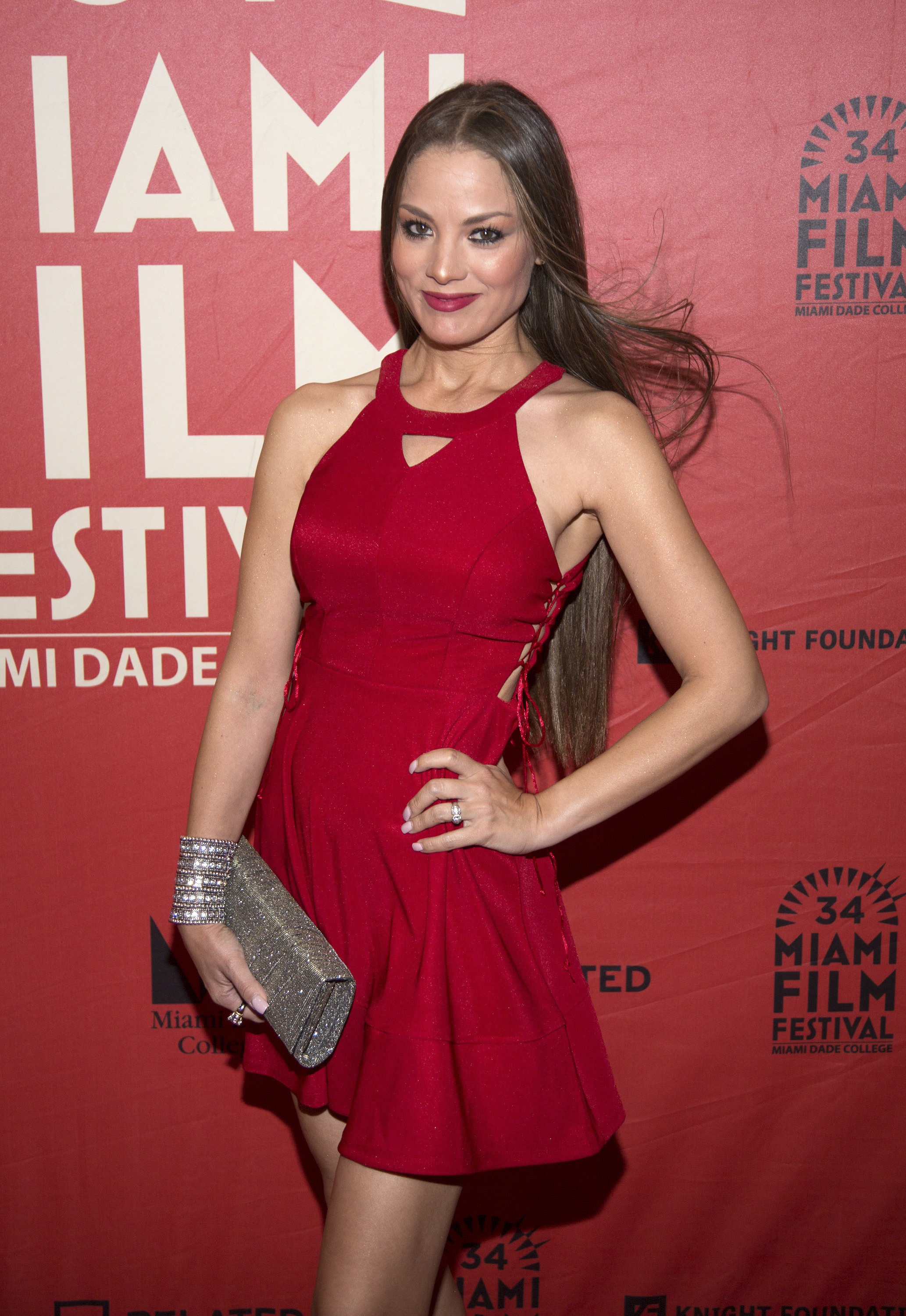 Carolina Tejera at the Closing Night Awards and the film screening For Your Own Good at Olympia Theater for Miami Film Festival Closing on March 11, 2017